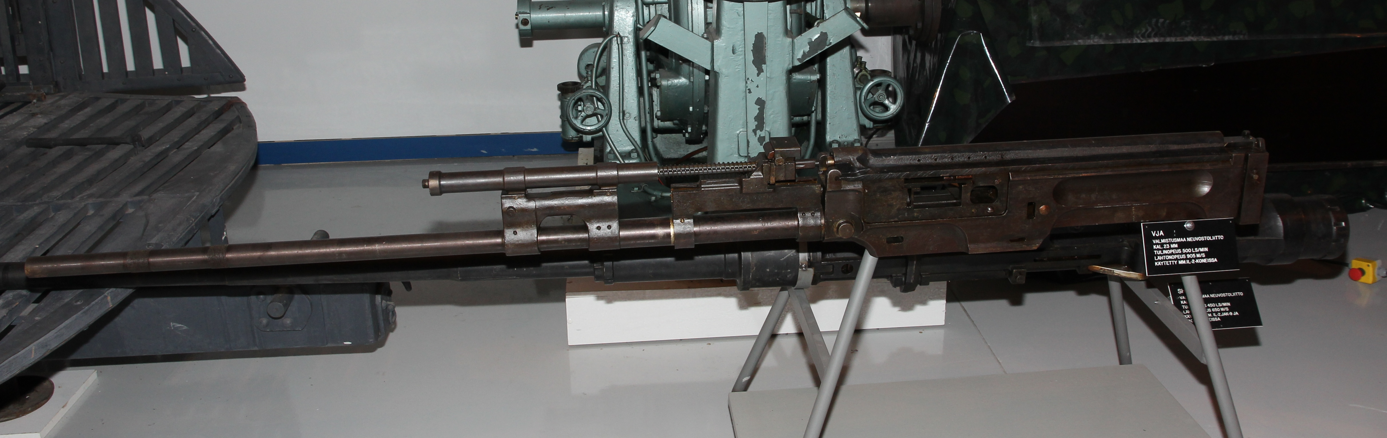 Soviet 23 mm VYa-23 aircraft cannon in the Aviation museum of Central Finland.